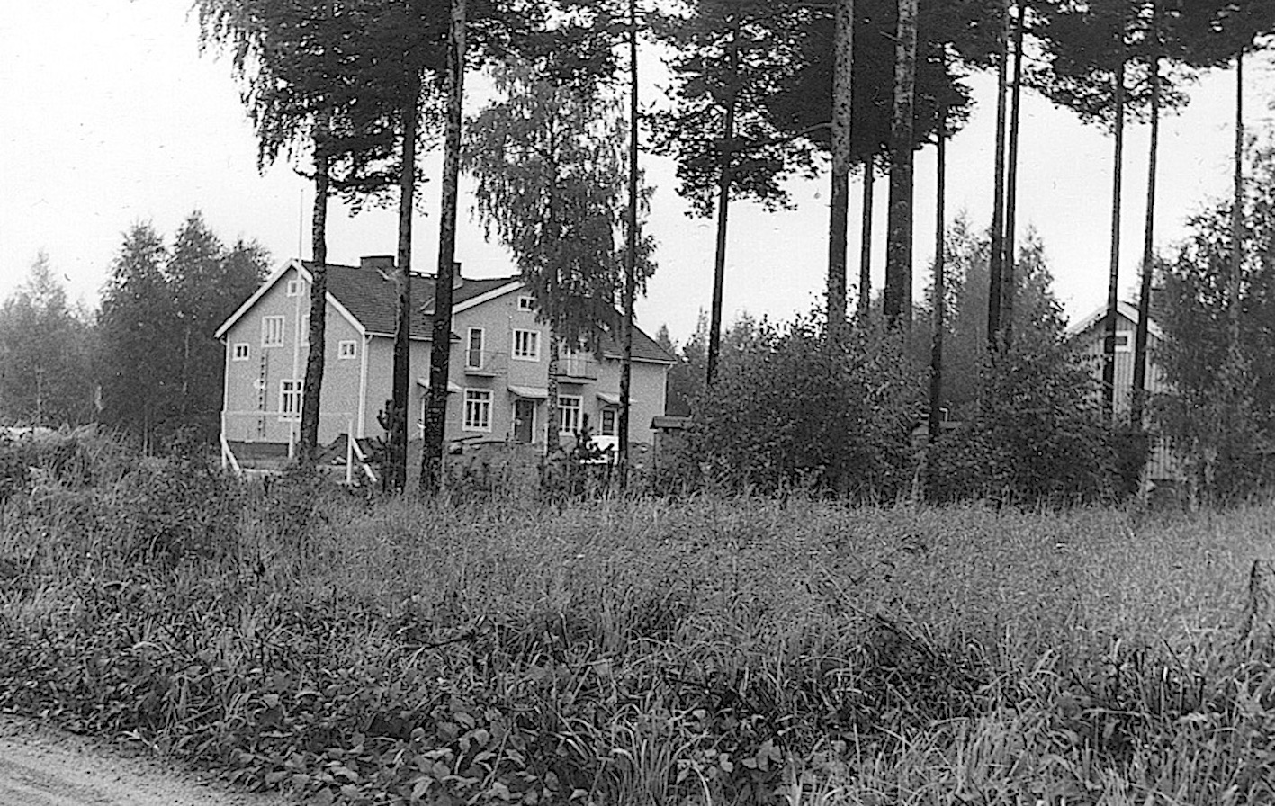 Elementary school in Aurejärvi Parkano